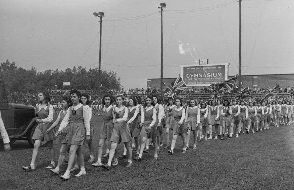 Students in uniform of "Baron Byng High School" on Saint-Urbain Street take part in a parade for victory. This student parade takes place in the Percival Molson Stadium in Montreal. In the background, a poster invites to provide funds for the construction of a gymnasium.